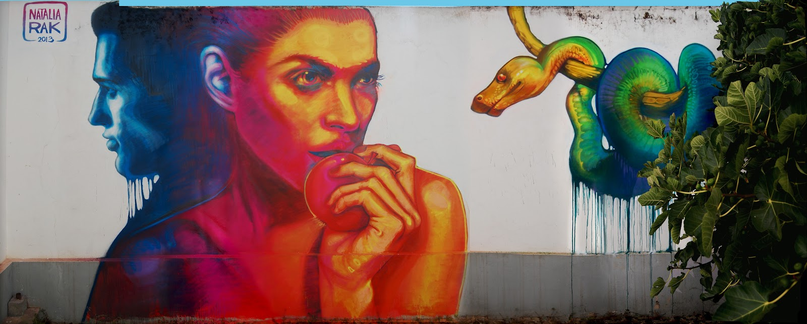 Adam and Eve painted on the side of a building in Poland.